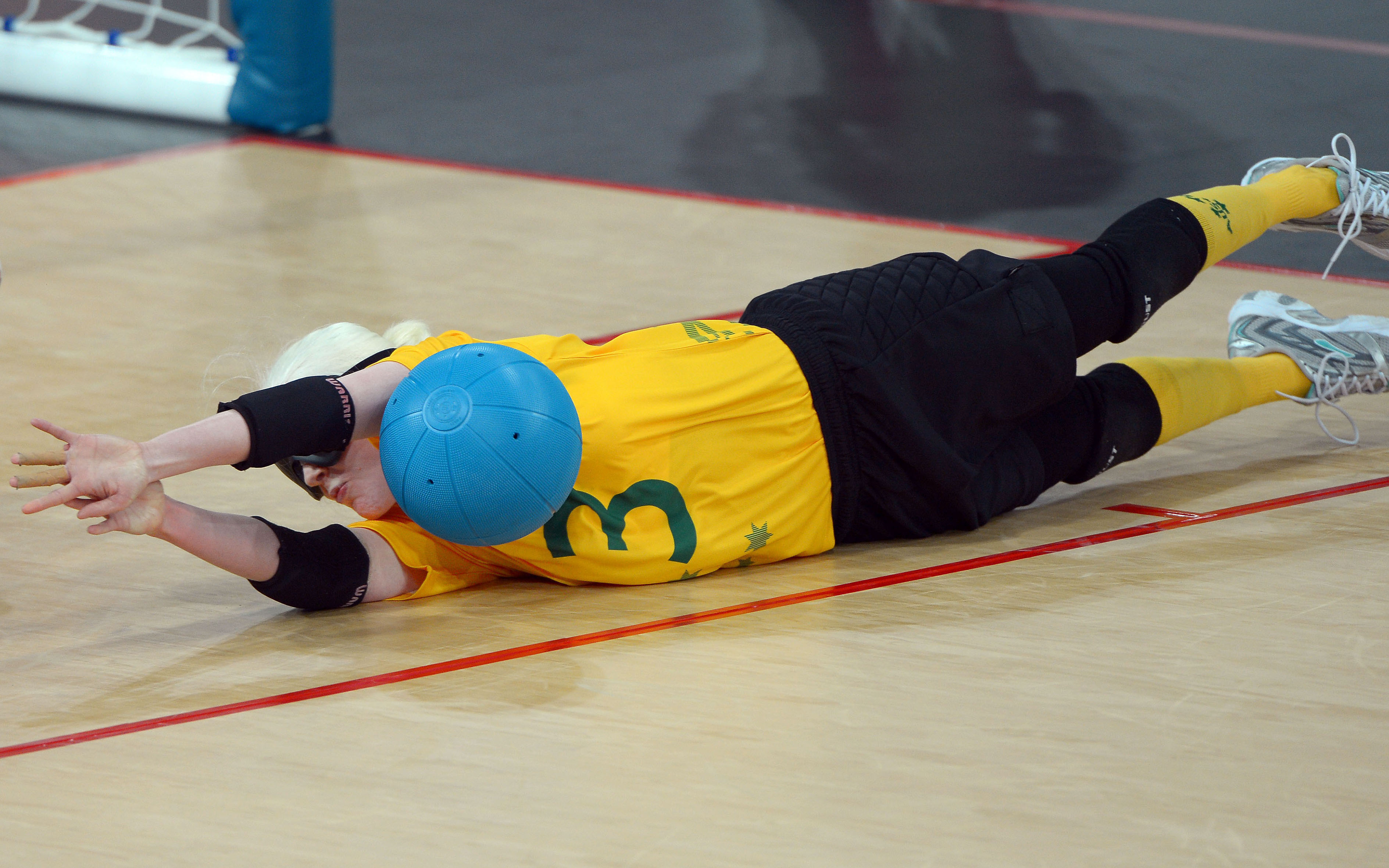 Photograph of Australian Paralympic team member Nicole Esdaile at the 2012 Summer Paralympic Games in London